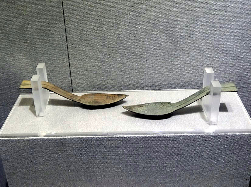 Bi, middle Western Zhou dynasty. Excaveted in the 2nd tomb in Rujiazhuang, Baoji in 1974. Collected in Baoji Bronze Ware Museum